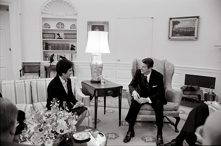 President Ronald Reagan meeting with Anne Gorsuch, EPA Administrator-Designate in Oval Office. 3/5/81.